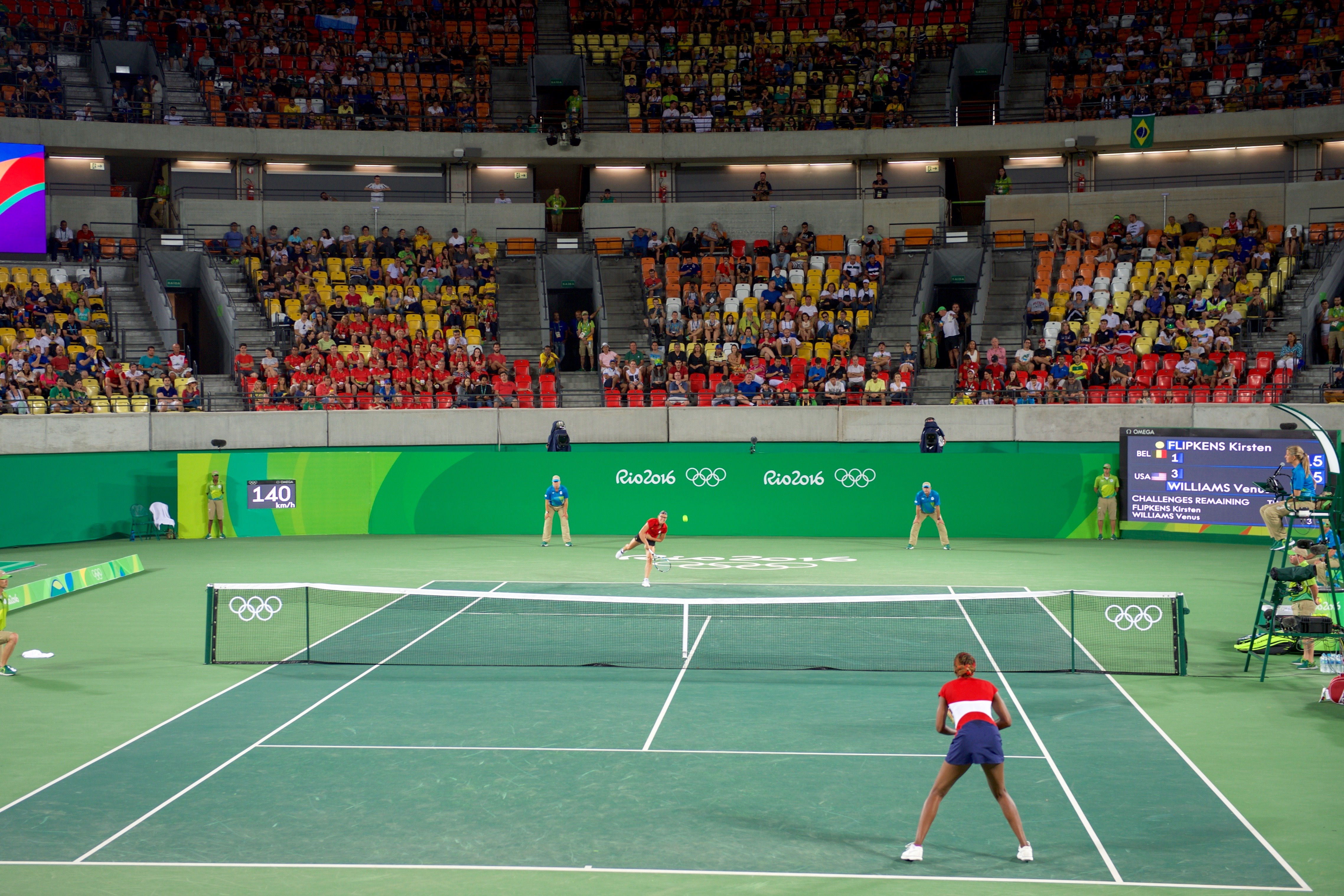 U.S. tennis player Venus Williams prepares to receive a serve from Belgian tennis player Kirsten Flipkens on August 6, 2016, during an Olympic tennis match at Olympic Park in Rio de Janeiro, Brazil, watched by U.S. Secretary of State John Kerry and fellow members of the U.S. Presidential Delegation to the 2016 Summer Olympics. [State Department Photo/ Public Domain]